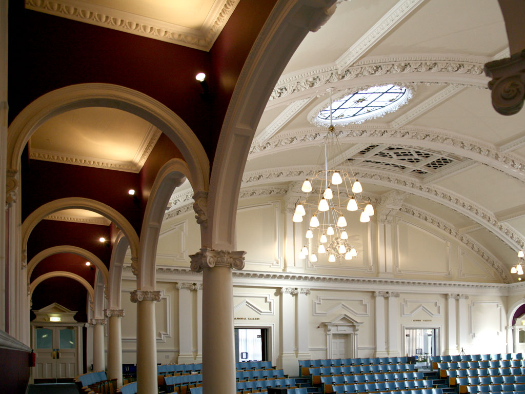 The Great Hall right aspect facing rear